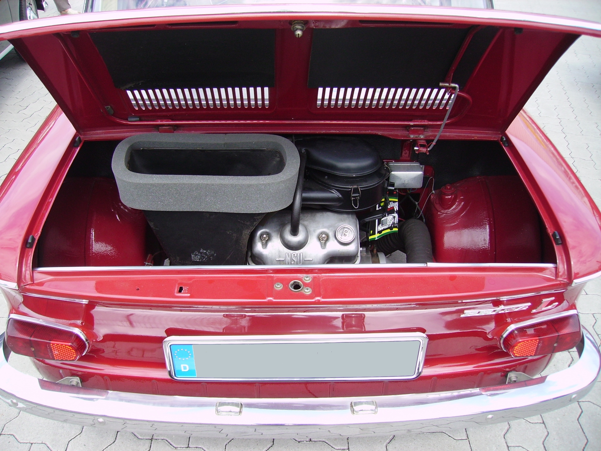 Rear engine of a NSU Prinz 4L